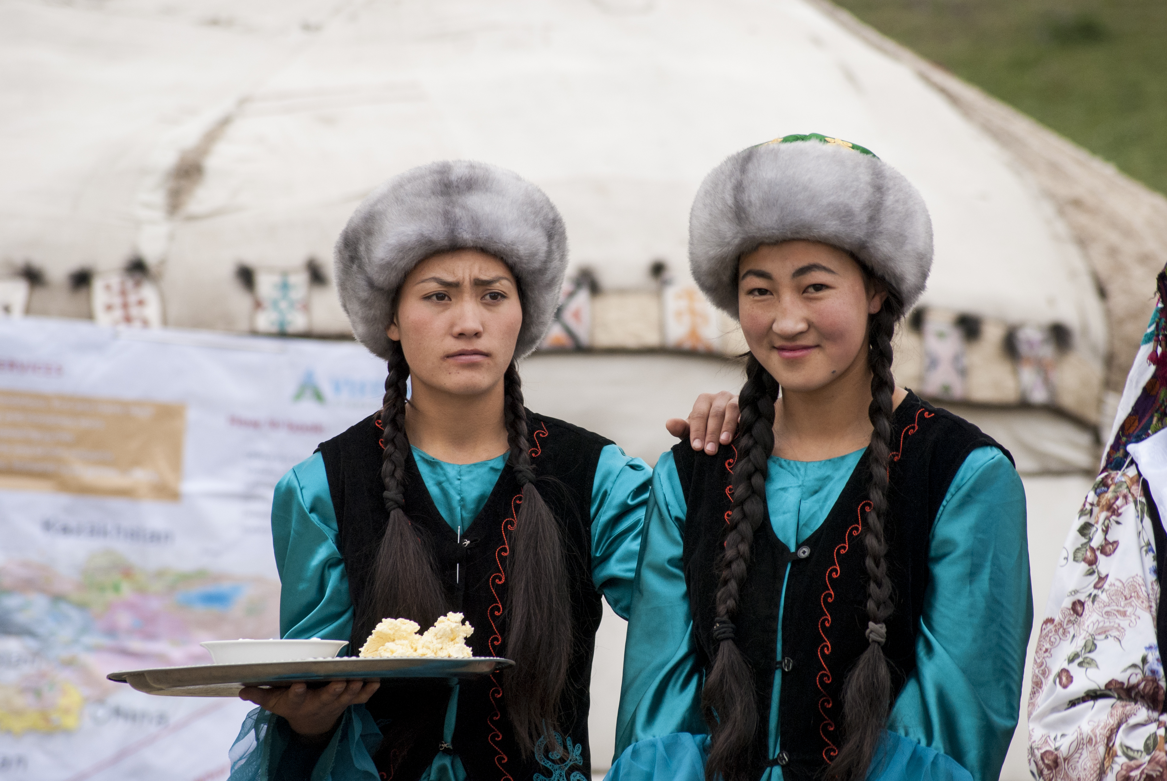 Two Kyrgyz women in dance costumes offering salt and butter in the opening of the National Horse Sports event.